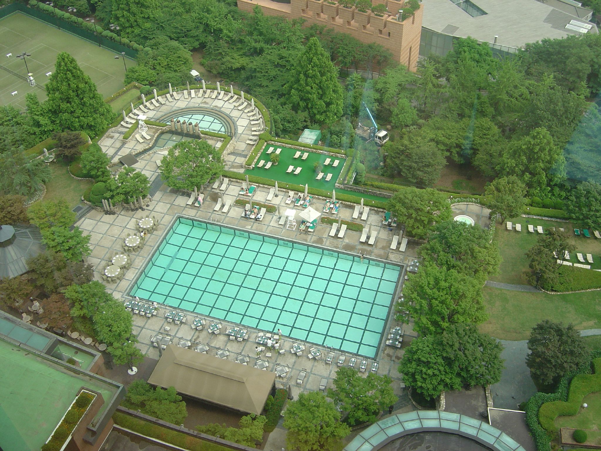 Grand Hyatt Hotel, Seoul